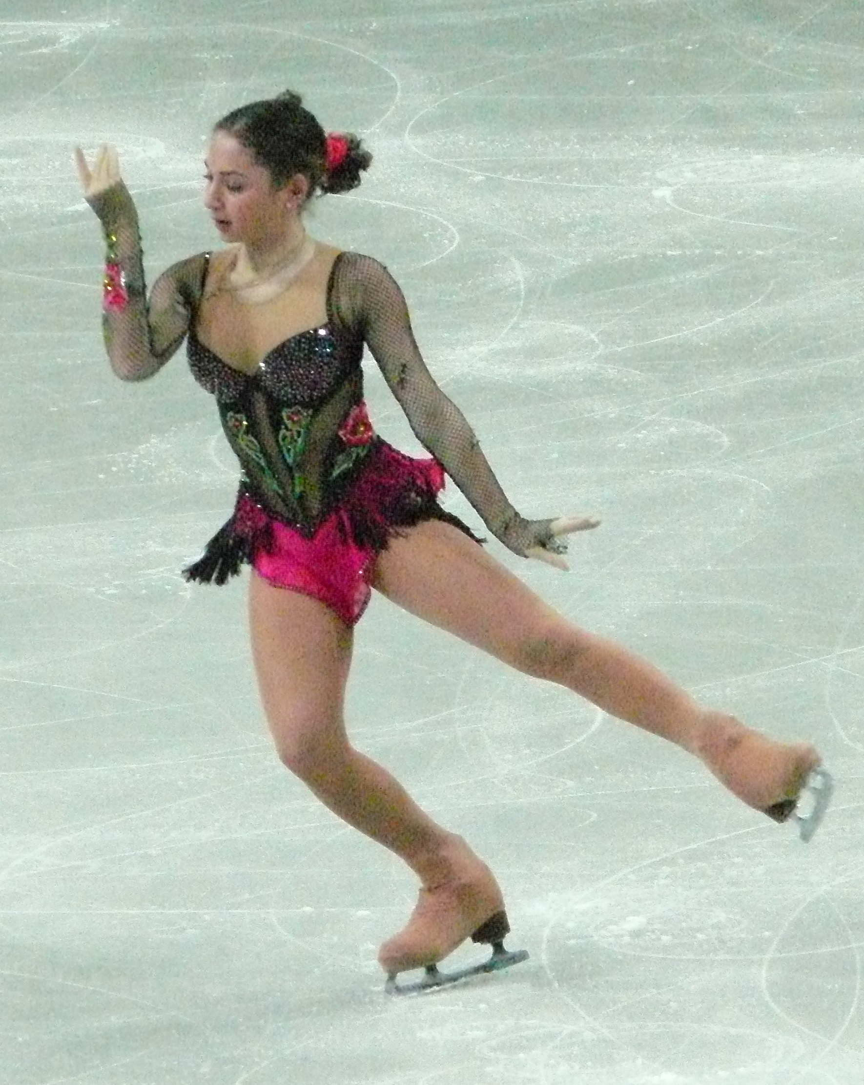 Elene Gedevanishvili (GEO) at the European Championships 2007 in Warsaw at the free program